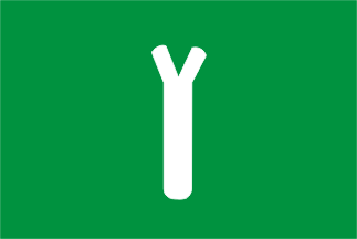 Flag of the United People's Democratic Party